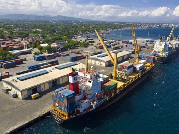 Normal day time operations